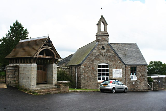 Madron Primary School The lych gate of the church is on the left of the photograph.